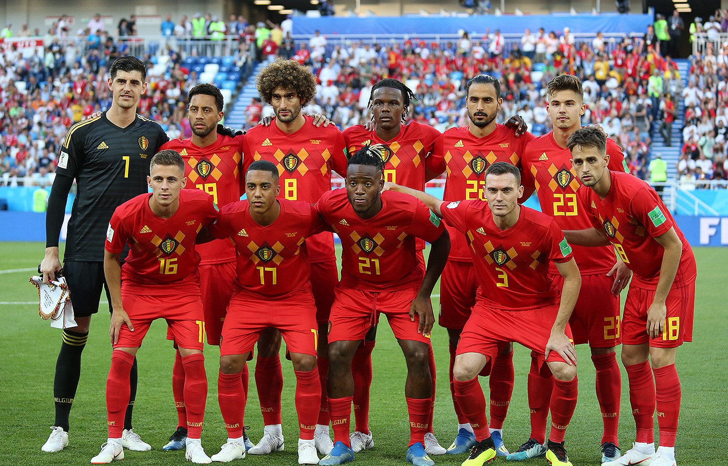 Belgium national association football team